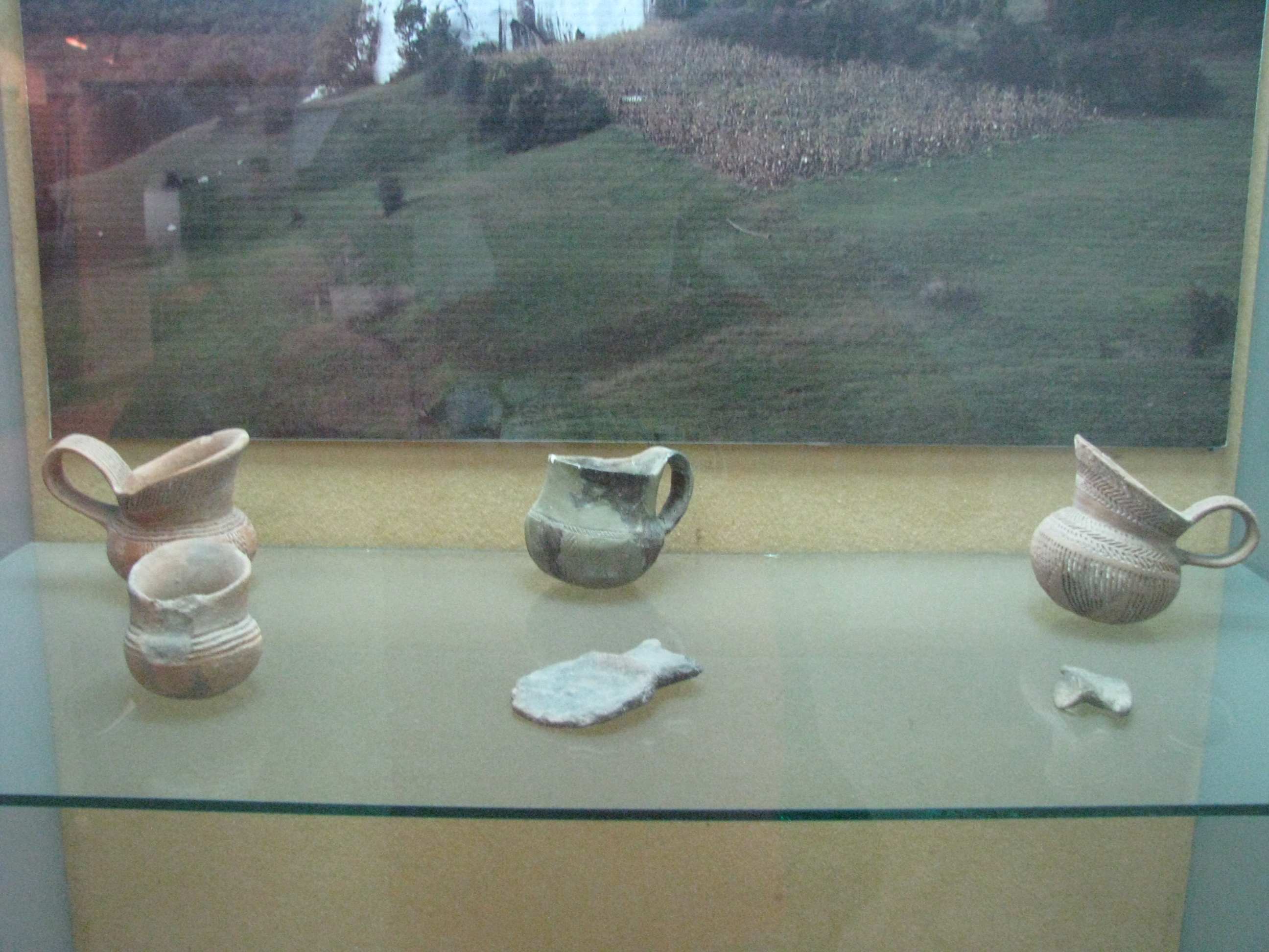 Alba Iulia National Museum of the Union 2011